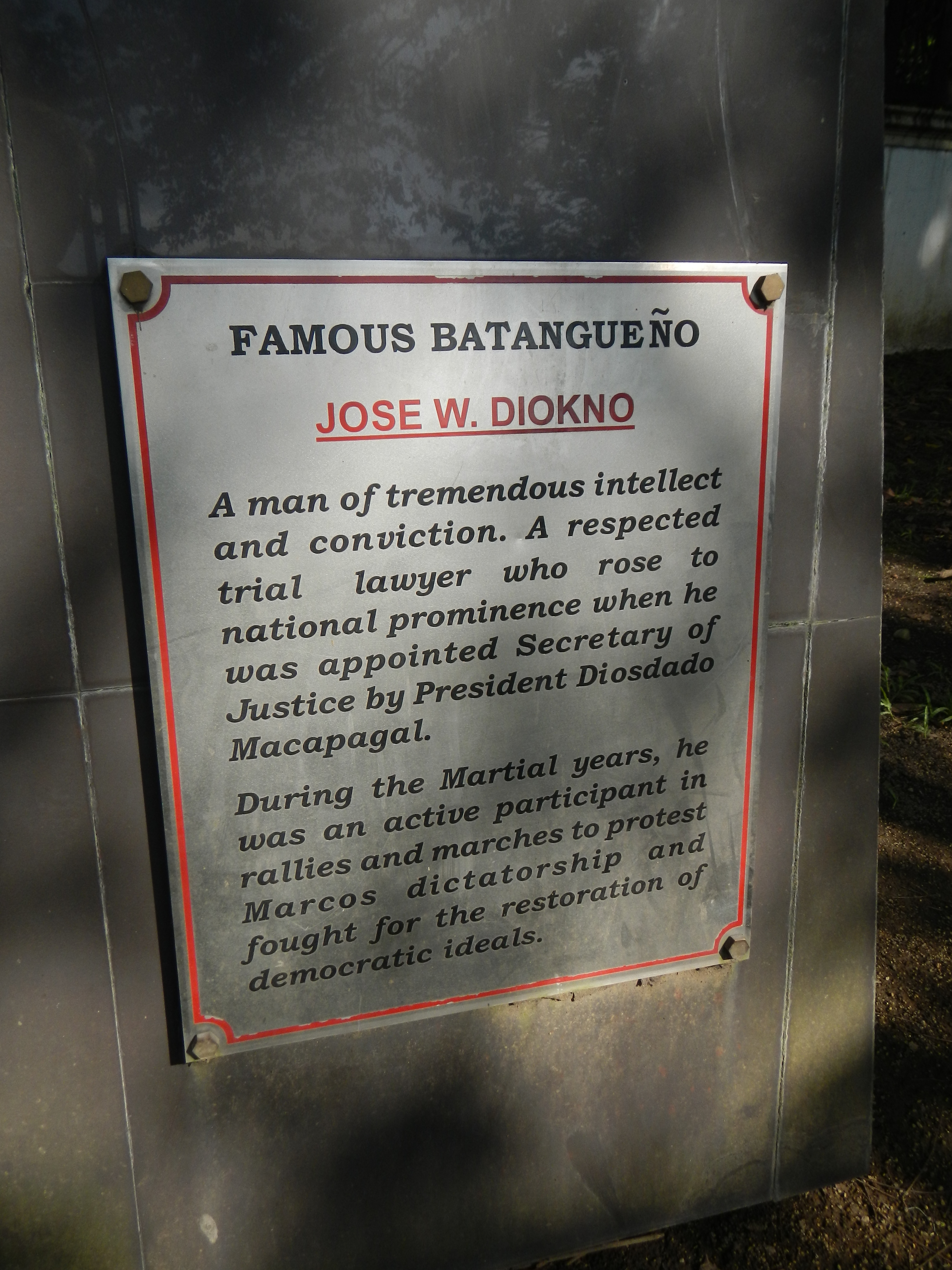 Upload Wizard photos -- (general description of landmarkds, town, church) -Historical Park and Laurel Park - (man-made parks at the Provincial Capitol Complex in Barangay Kumintang Ibaba - with a Multi-Purpose Center used as basketball court, volleyball court and dormitory, for a seminar and meeting venues; the sculpture work entitled "Diwa ng Batangeuno" done in bronze/steel by Ed Castrillo portrays the vitues of the Batanguenos such as nobility, industriousness, beauty and wisdom[1]) - Monuments, Busts of - Maria Orosa[2] Maria Orosa e Ylagan; Claro M. Recto[3]; Dr. Baldomero Roxas [4]; Feliciano Leviste[5]; Dr. Deogracias V. Villadolid - Profiles of Filipino Fisheries Scientists - University of the Philippines Los Baños Limnological Research Station[6]; Jose Diokno[7] - at the - Batangas [8] Provincial Capitol [9] Coordinates: 13°45'55"N 121°3'50"E Batangas City (the largest and capital city of the Province of Batangas, the "Industrial Port City of Calabarzon", 2010 census, the city has a population of 305,607 people).